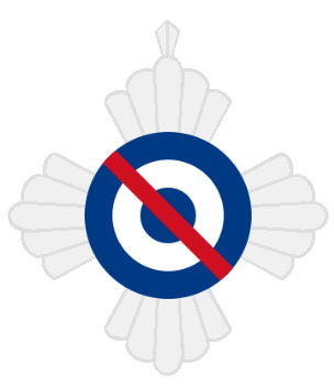 18th of May 1811 Medal